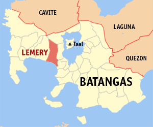 Map of Batangas showing the location of Lemery